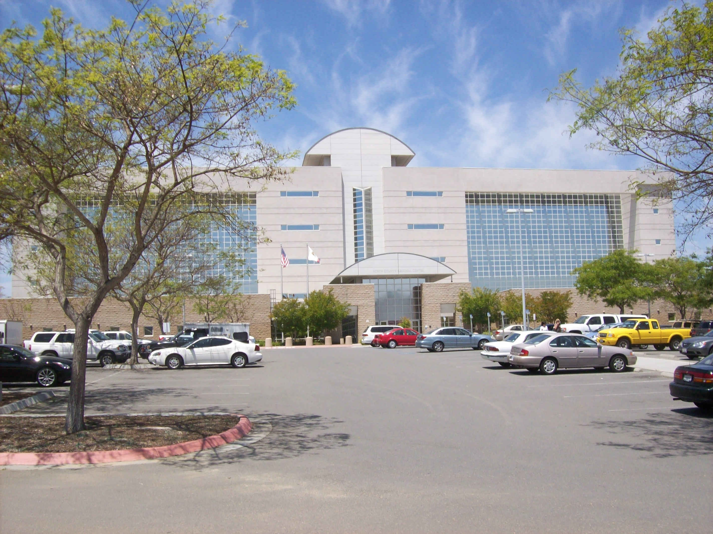 Vista Courthouse - Vista, California